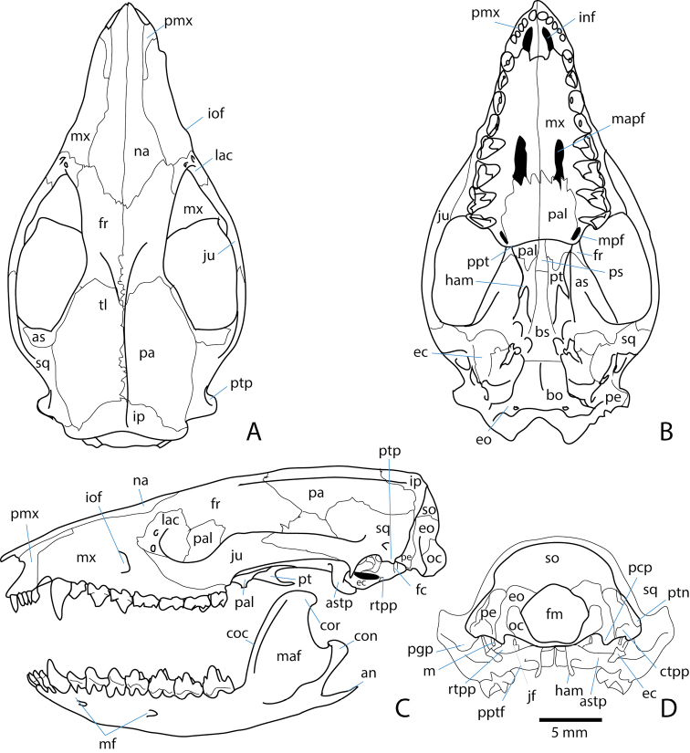 Skull of Monodelphis brevicaudata, modified from Wible (2003). Skull (A–D) and mandible (C) in dorsal (A), ventral (B), left lateral (C), and caudal (D) views. Abbreviations: an angular process; as alisphenoid; astp alisphenoid tympanic process; bo basioccipital; bs basisphenoid; coc coronoid crest; con mandibular condyle; cor coronoid process; ctpp caudal tympanic process of the petrosal; ec ectotympanic; eo exoccipital; fc fenestra cochleae; fm foramen magnum; fr frontal; ham pterygoid hamulus; inf incisive foramen; iof infraorbital foramen; ip interparietal; jf jugular foramen; ju jugal; lac lacrimal; lacf lacrimal foramen; m malleus; maf masseteric fossa; mapf major palatine foramen; mf mental foramen; mpf minor palatine foramen; mx maxilla; na nasal; oc occipital condyle; pa parietal; pal palatine; pcp paracondylar process of the exoccipital; pe petrosal; pmx premaxilla; pgp postglenoid process; ppt postpalatine torus; pptf foramen in the postpalatine torus; ps presphenoid; pt pterygoid; ptn posttemporal foramen; ptp posttympanic process; rtpp rostral tympanic process of the petrosal; so supraoccipital; sq squamosal; tl temporal line.